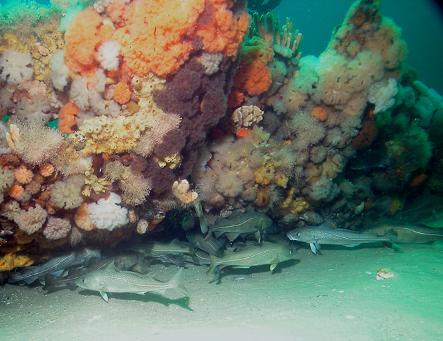 Atlantic cod, Gadus morhua, swim under a shipwreck laden with invertebrates in Stellwagen Bank National Marine Sanctuary